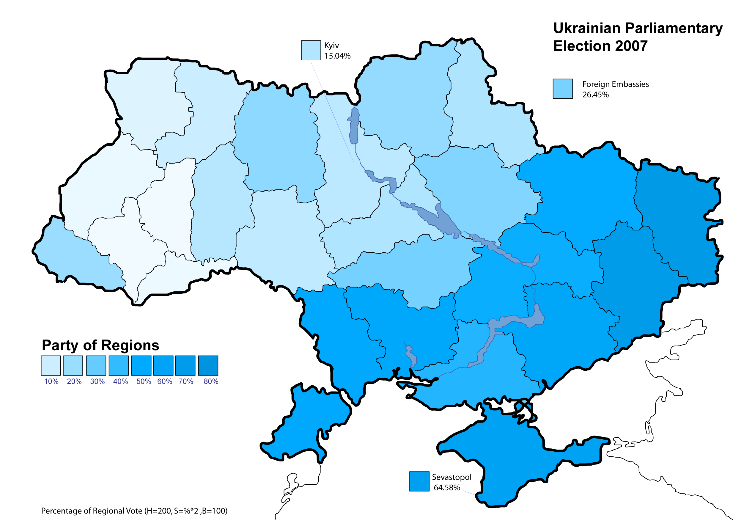 Ukrainian Parliamentary Election 2007 (Party of Regions (PoR) per region - percentage of Regional vote) (H=200, S=%*2, B=100) Improved label alignment and cleaner graphics with standard scale ratio x2